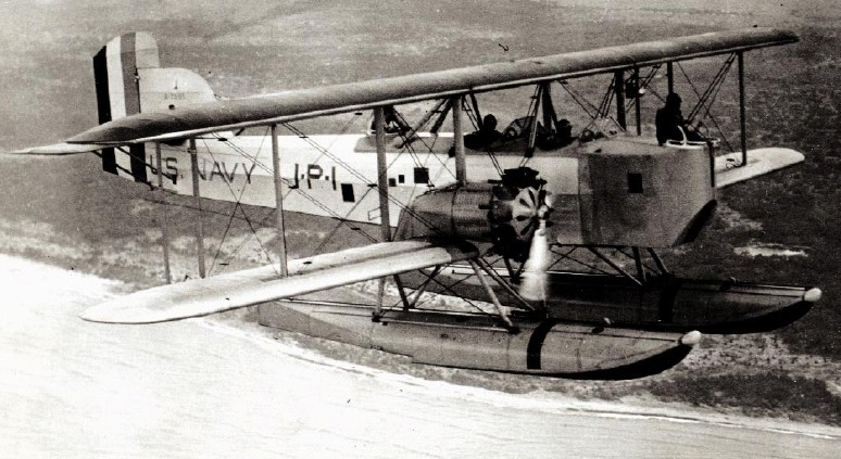 A U.S. Navy Douglas T2D-1 of patrol squadron VP-1, based at Pearl Harbor, Hawaii (USA), 1928-1931.